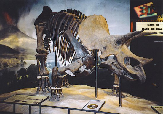 Triceratops at the Science Museum of Minnesota